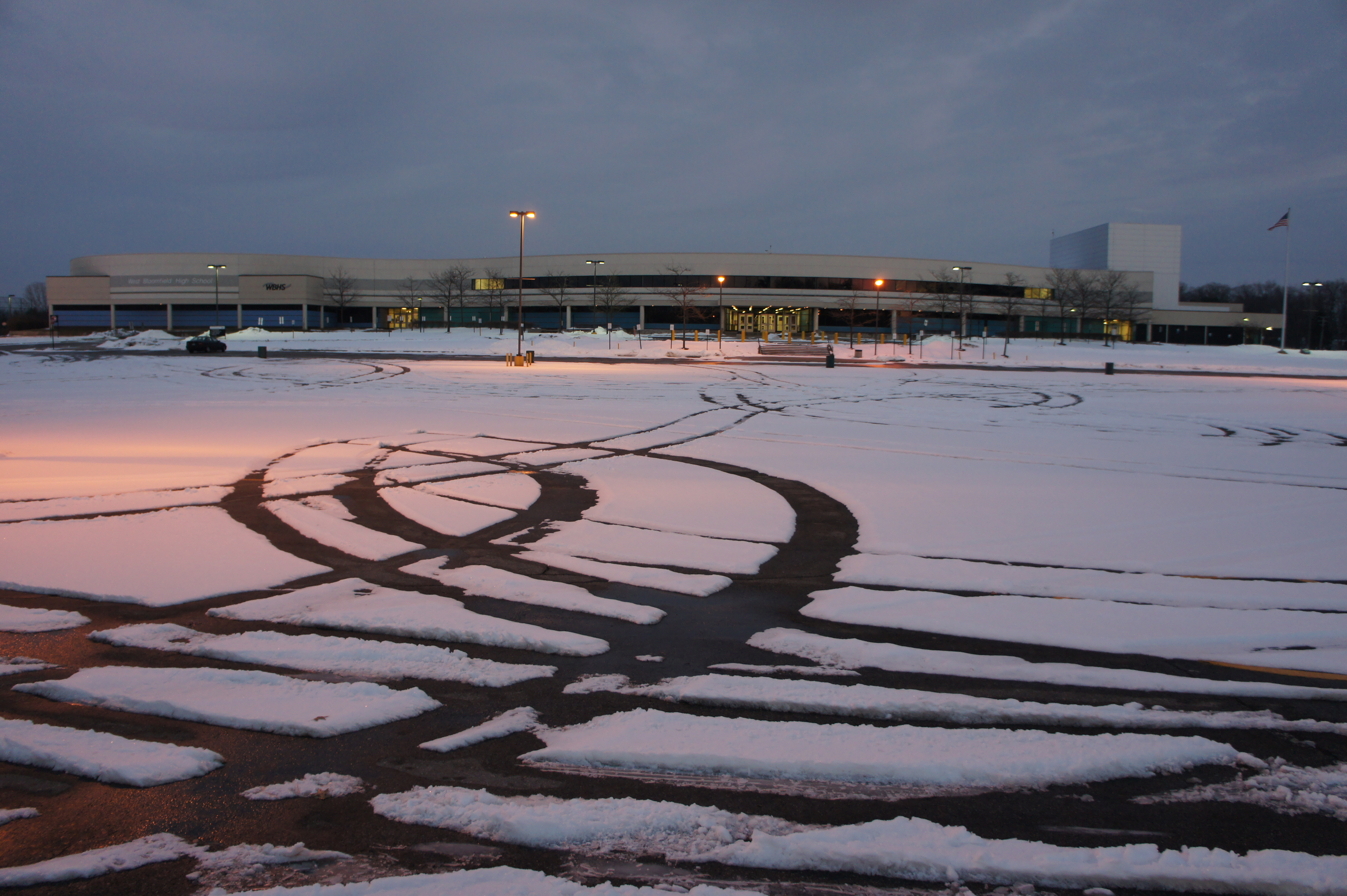 A view of West Bloomfield High School in West Bloomfield Township, Michigan